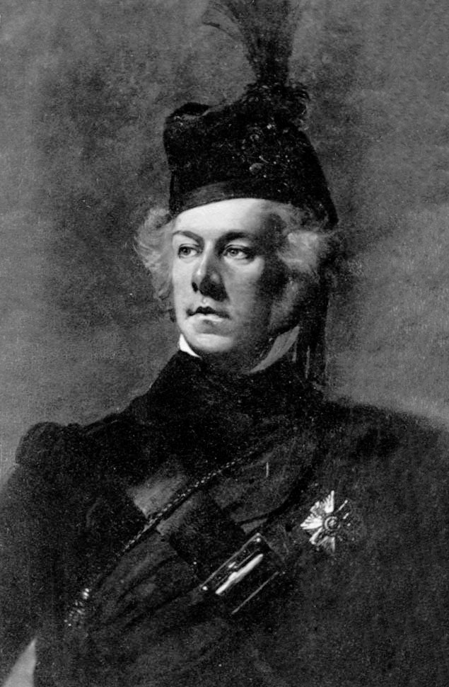 John Campbell, 2nd Marquess of Breadalbane (26 October 1796 – 8 November 1862)